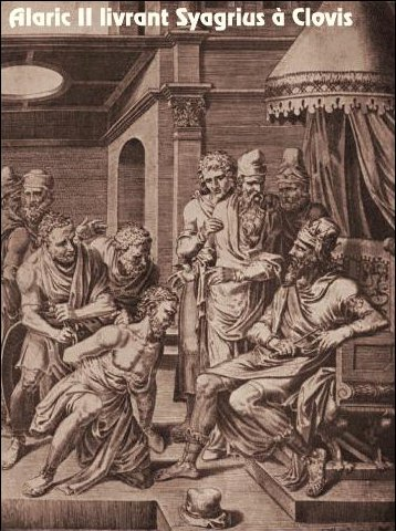 The captured Syagrius is brought before Alaric II who orders him sent to Clovis I